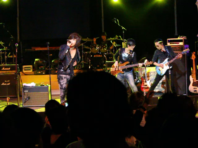 Chung Dong-ha at a 2010 Boohwal Concert, Ford Amphitheatres Los Angeles.